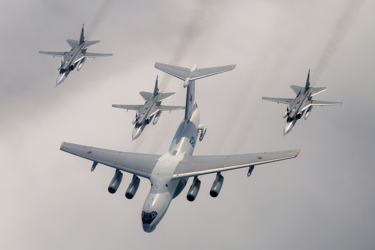 Russian Air Force Ilyushin Il-78M in flight with Sukhoi Su-24s